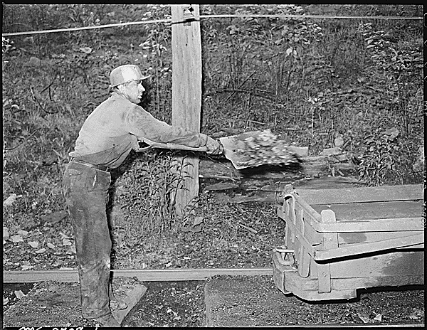 Department of the Interior. Solid Fuels Administration For War. 4/19/1943-6/30/1947